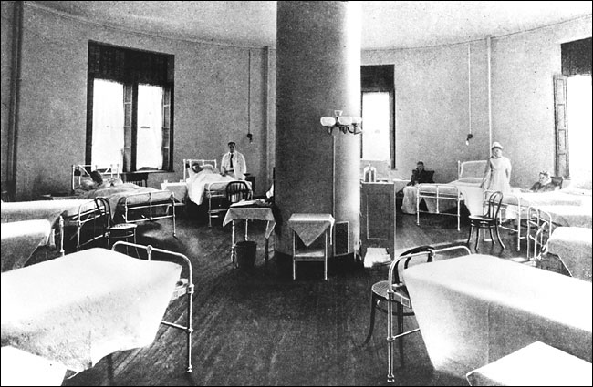 Outdated picture is rare and only one that depicts the interior of a historic landmark.